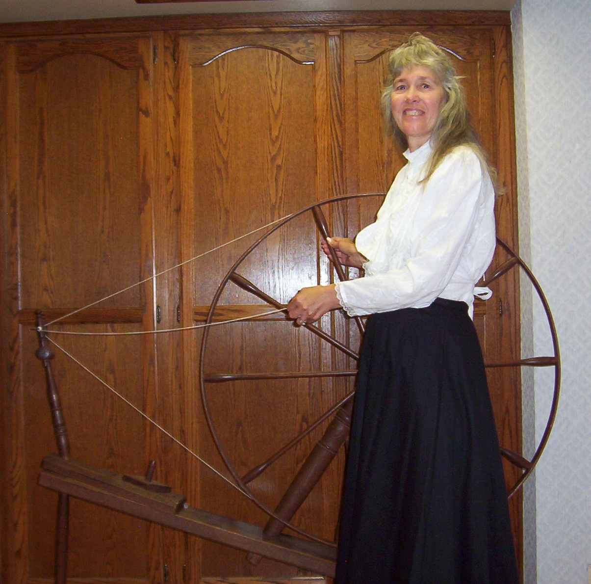 Charlene Parker with great wheel